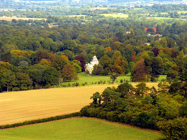 Stargrove. A view of Stargrove from Wayfarer's Walk. For more information